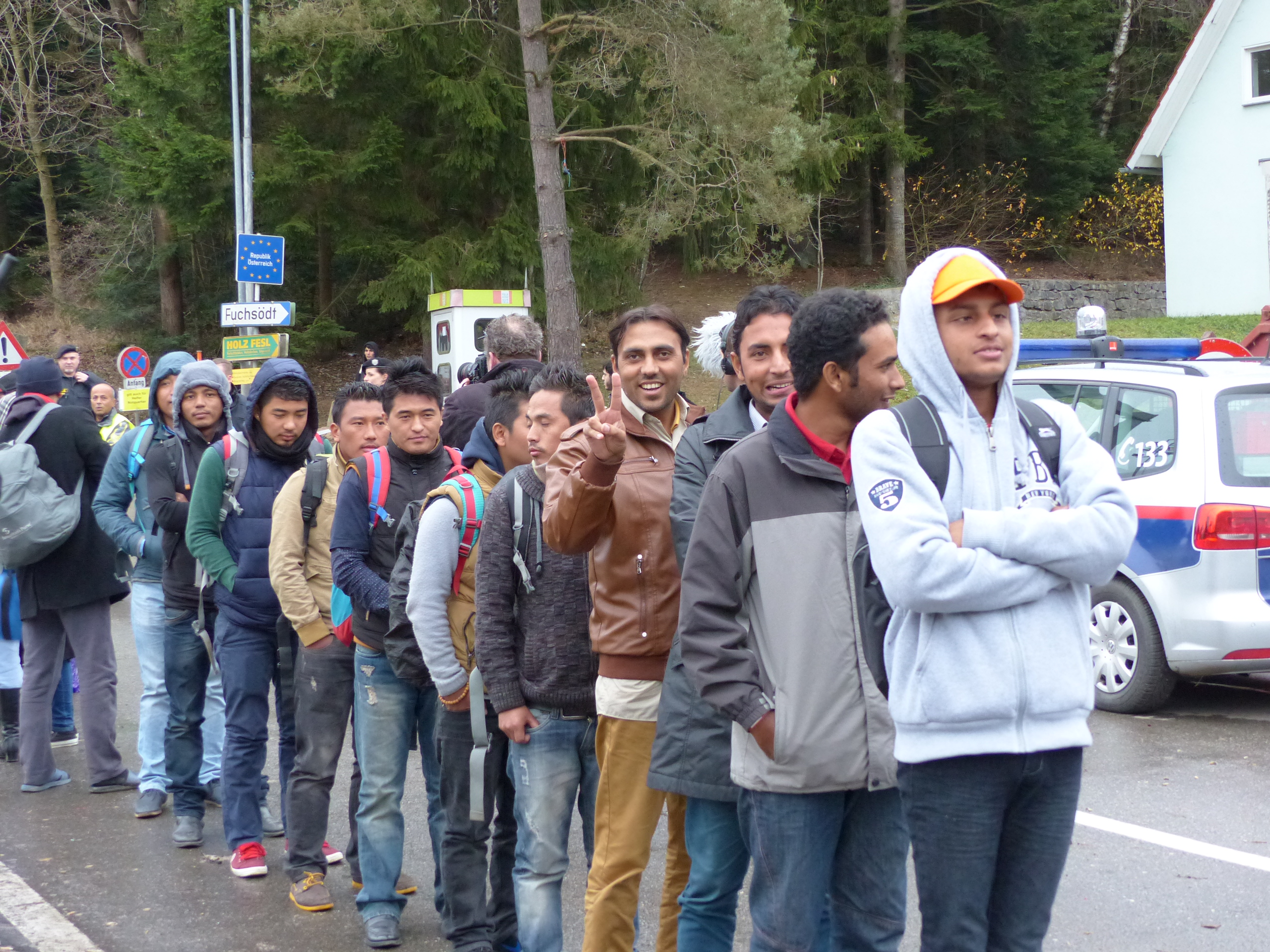 Grenzübergang Oberösterreich / Deutschland Immigrantenabfertigung 17.11.2015 - WEGSCHEID-HANGING Personality rights warning Although this work is freely licensed or in the public domain, the person(s) shown may have rights that legally restrict certain re-uses unless those depicted consent to such uses. In these cases, a model release or other evidence of consent could protect you from infringement claims.